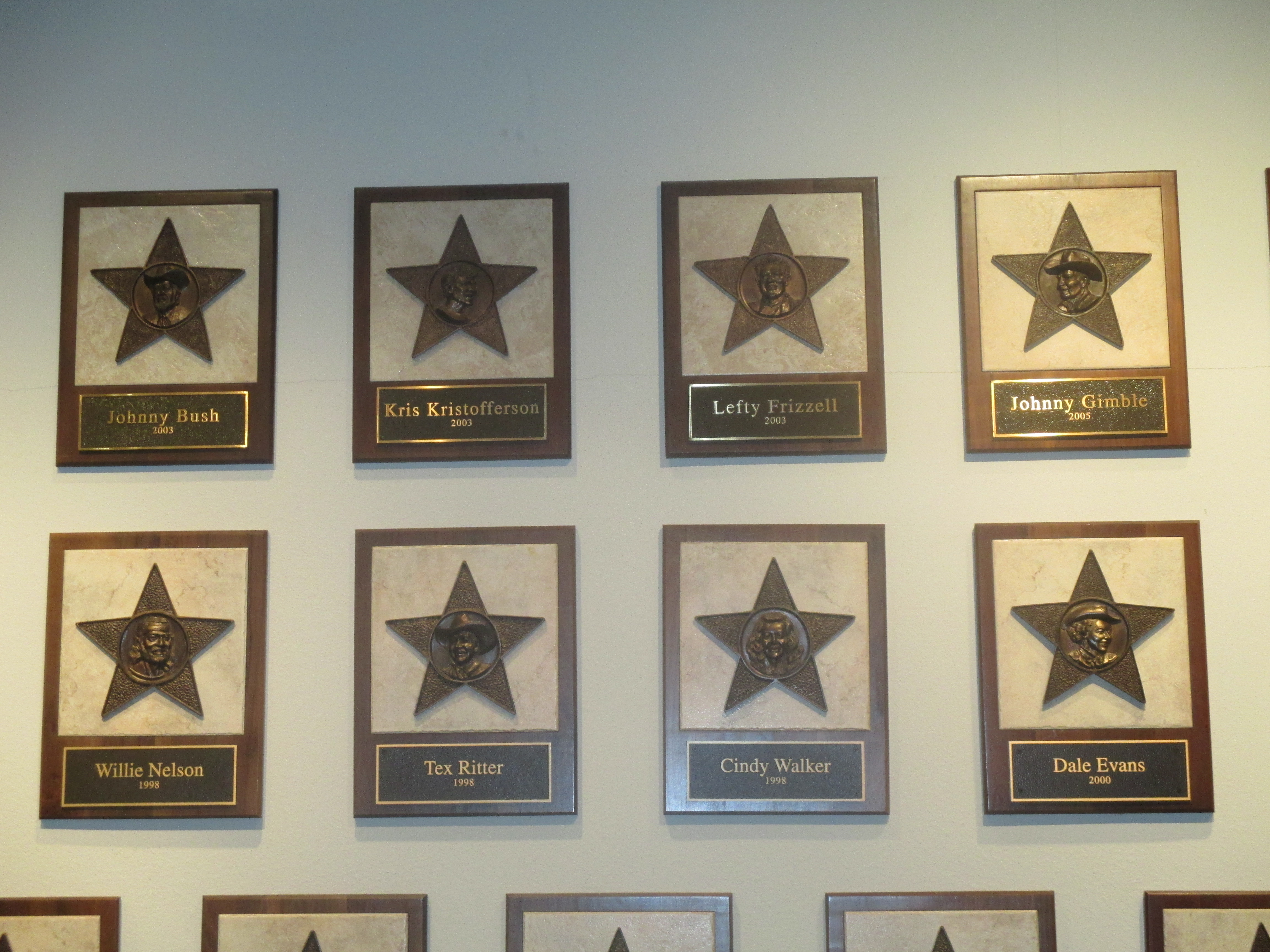 Photo of some of the plaques at the TX Country Music Hall of Fame in Carthage